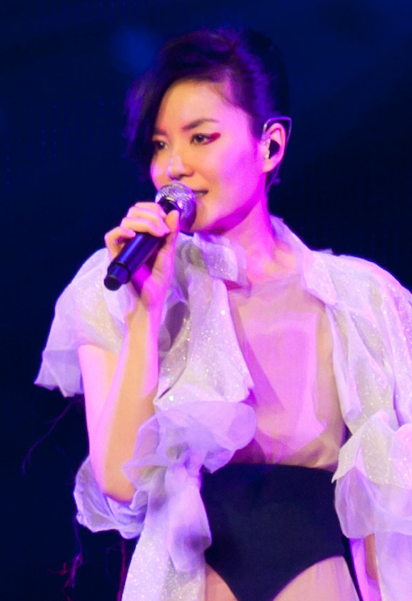 Faye Wong concert in Hong Kong (cropped out background)